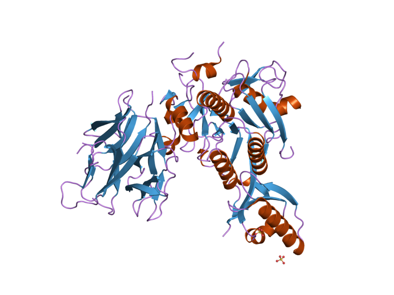 Cartoon representation of the molecular structure of protein registered with 2pmw code.